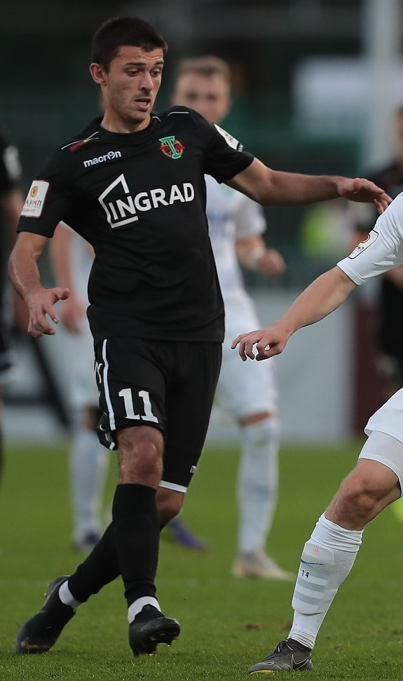 Konstantin Kertanov with FC Torpedo Moscow in a game against FC Avangard Kursk.